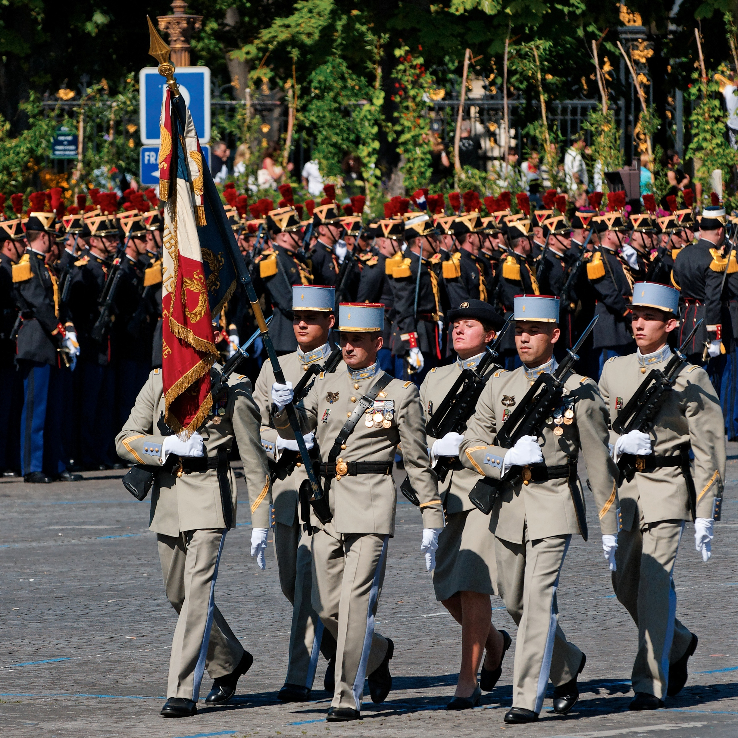 Colour guard of the École nationale des sous-officiers d'active, Bastille Day 2008 military parade on the Champs-Élysées, Paris.